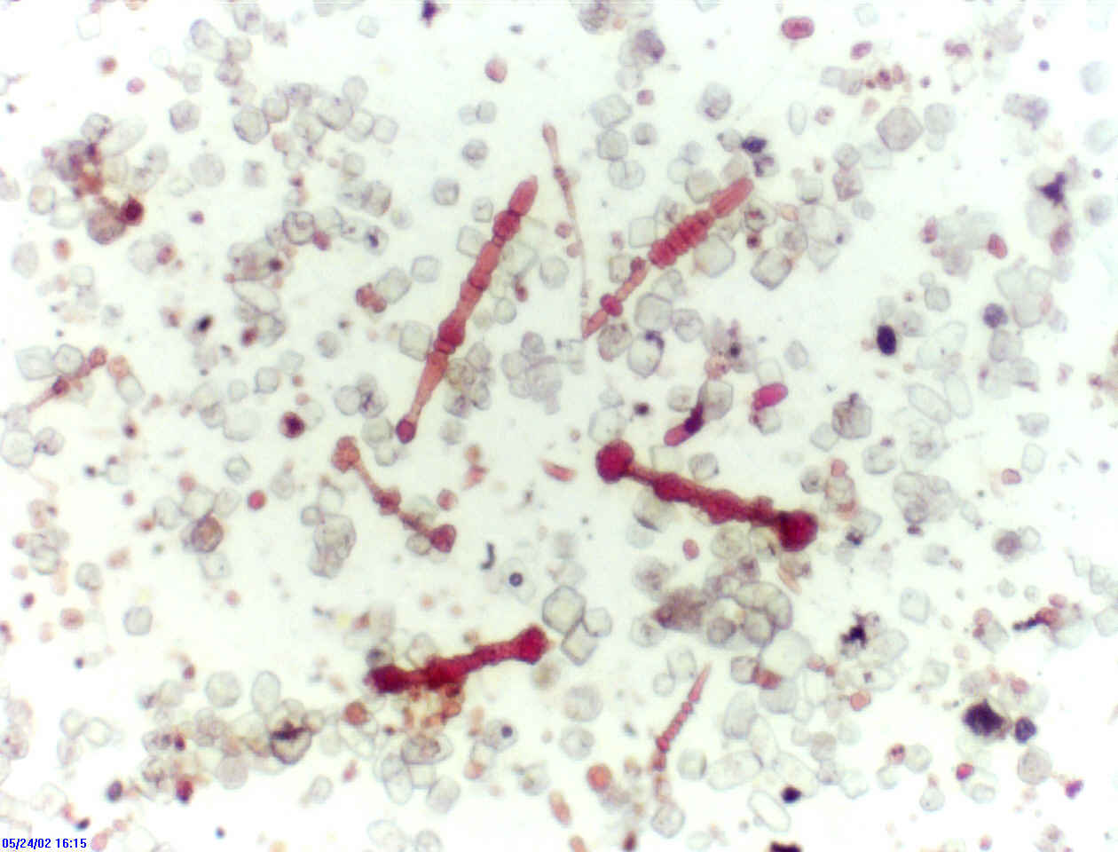 Lung asbestos bodies after chemical digestion of lung tissue.